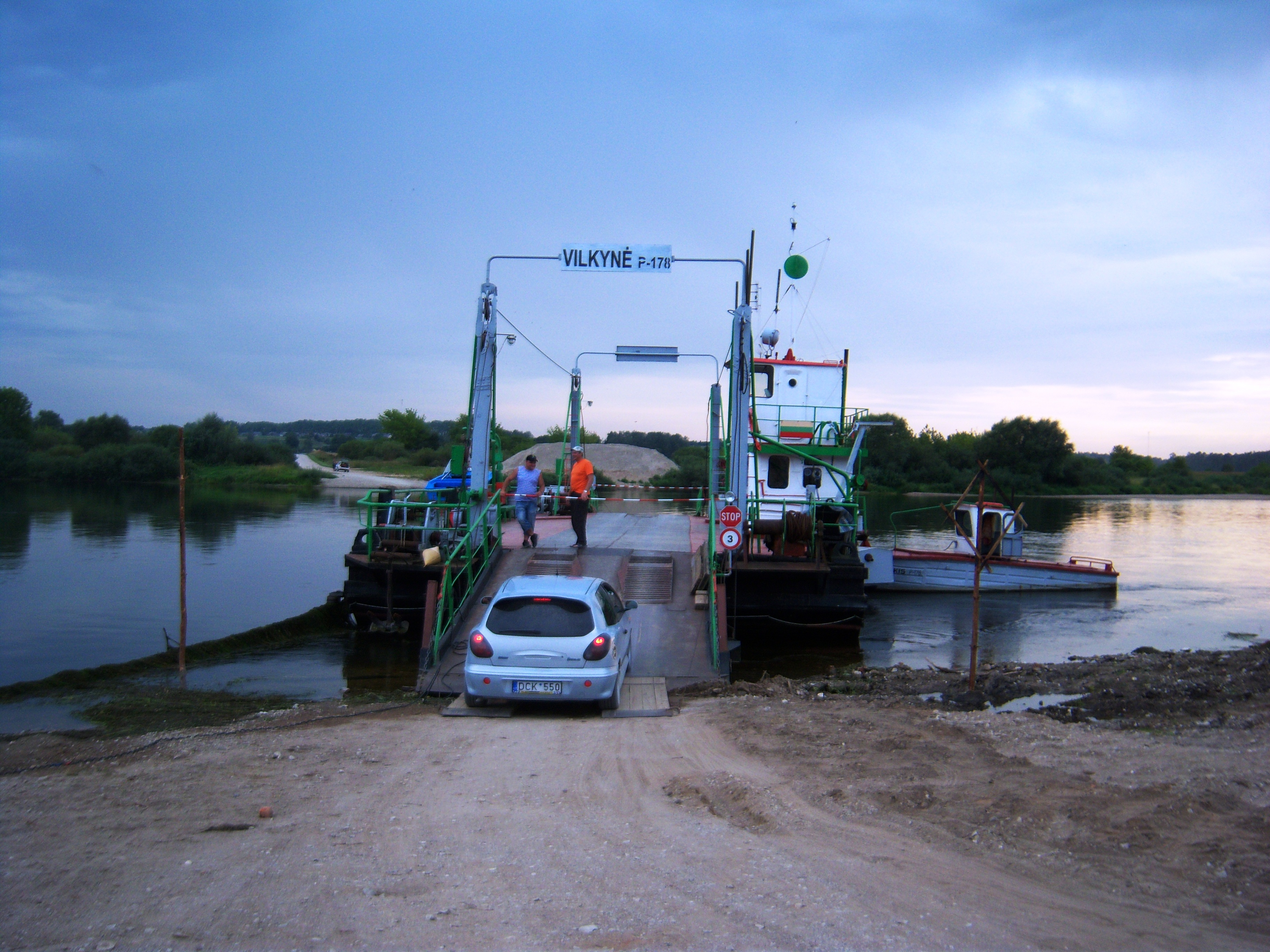 Cable ferry across Nemunas River, Vilkija. Lithuania